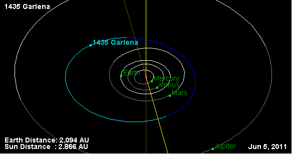 1435 Garlena orbit, and his position on 05 Jun 2011 (NASA Orbit Viewer applet)